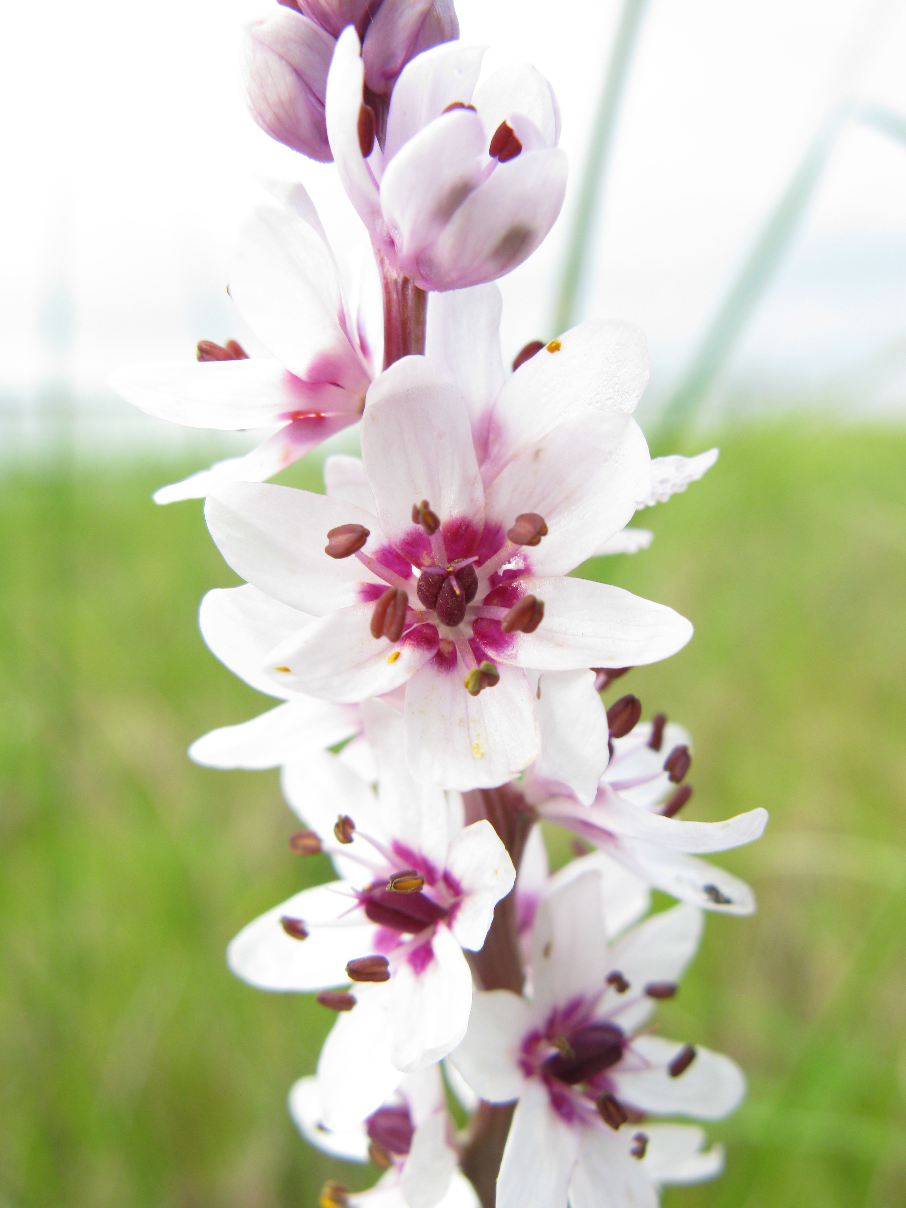 Plants near Hermon in Western Cape. The genus used to be called Dipidax, and then Onixotis.